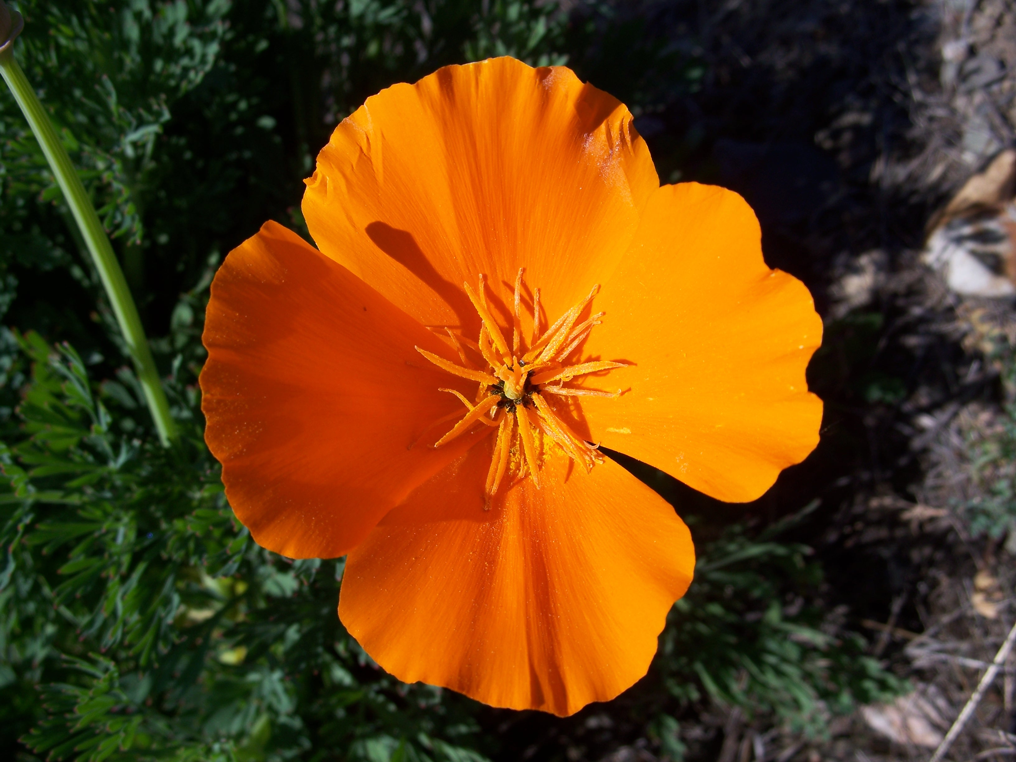 California poppy